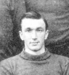 Photo of William McClelland taken in 1903